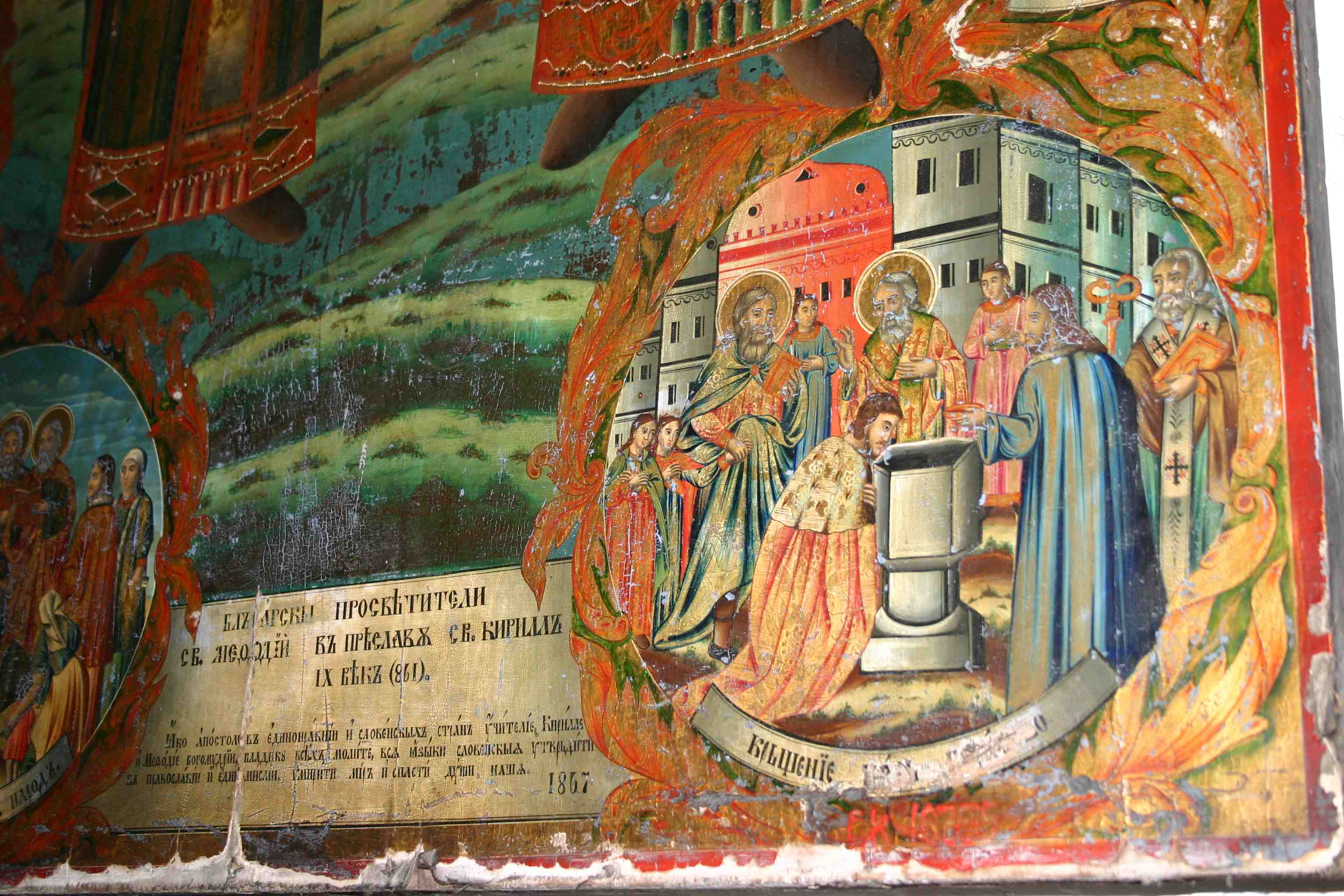 Fragment from Icon of St.st.Cyril and Metodius from church "St.the ANNUNCIATION ", Prilep, Republic of Macedonia